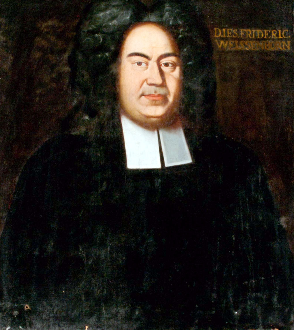 Jesaias Friedrich Weissenborn (1673-1750) german protestant Theologian